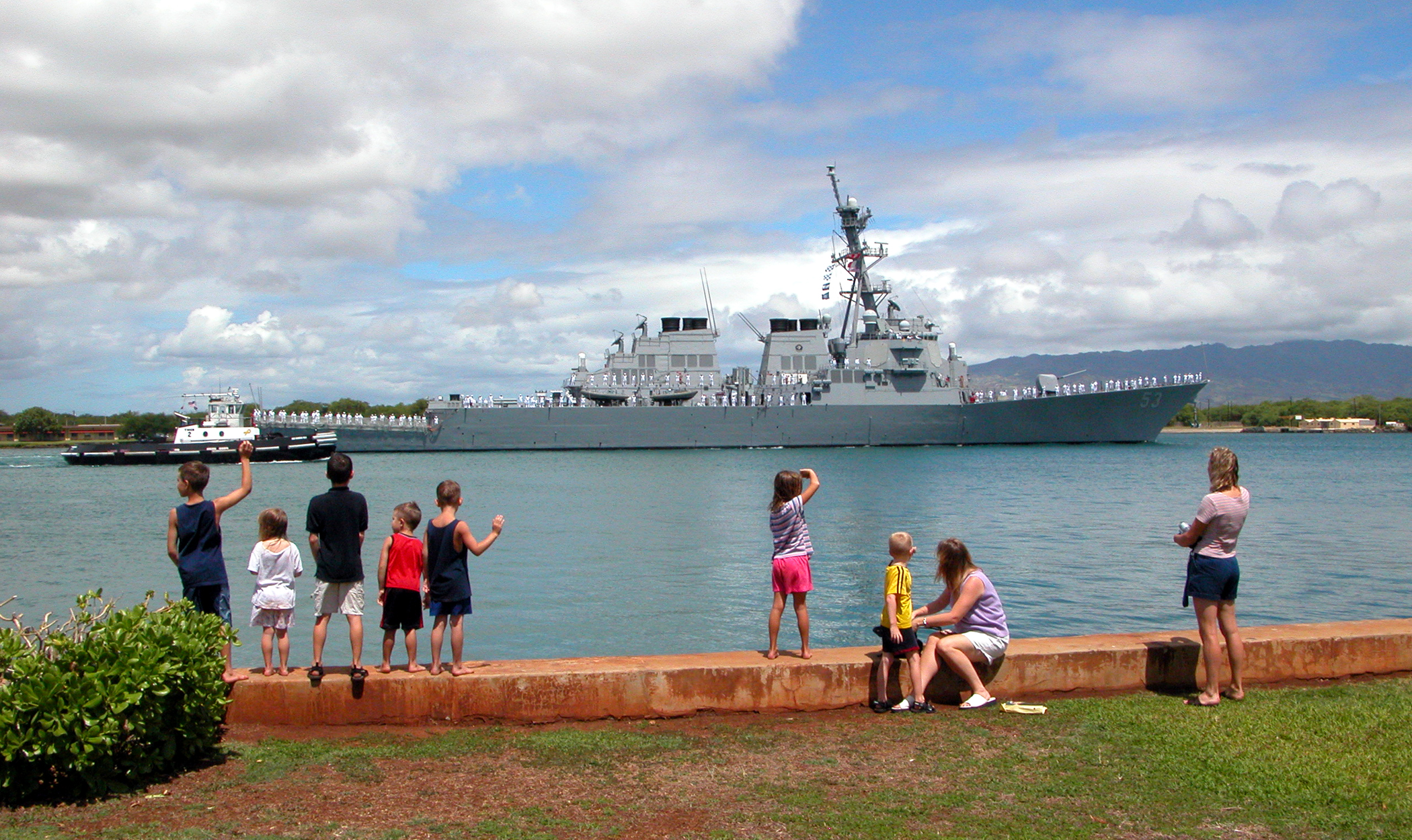 Naval Station Pearl Harbor, Hawaii (June 29, 2004) - Family members at Hickam Air Force Base welcome the Arleigh Burke-class guided missile destroyer USS John Paul Jones (DDG 53) as the ship transits the channel into Pearl Harbor, Hawaii. John Paul Jones is visiting Pearl Harbor to take part in Rim of the Pacific (RIMPAC) 2004. RIMPAC is the largest international maritime exercise in the waters around the Hawaiian Islands. This years exercise includes seven participating nations; Australia, Canada, Chile, Japan, South Korea, the United Kingdom and the United States. RIMPAC is intended to enhance the tactical proficiency of participating units in a wide array of combined operations at sea, while enhancing stability in the Pacific Rim region. U.S. Navy photo by Journalist 2nd Class Mario A. Quiroga (RELEASED) For more information go to: /